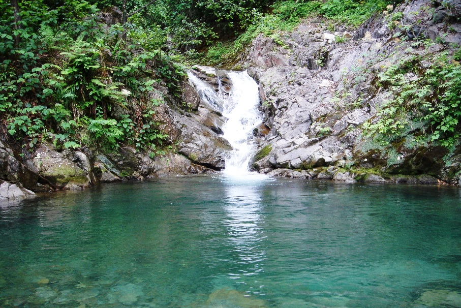 Rain forest in Çayeli, Rize in Turkey.